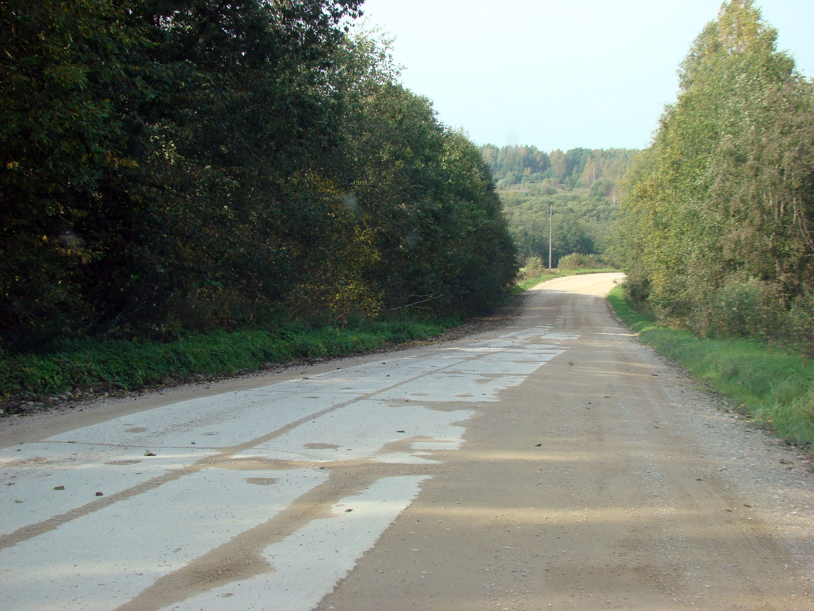 Road P116, reconstructed in USSR period, strengthen with concrete plates to carry heavy load military transportation's.